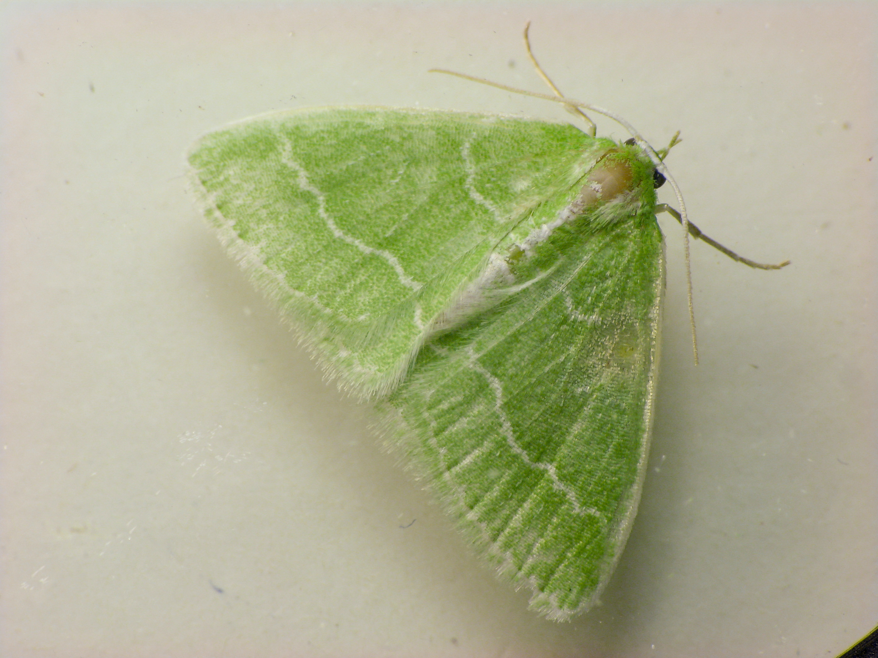 Emerald moth, Synchlora aerata (Wavy-lined Emerald - Hodges#7058), female (it laid eggs). Size: 20 mm wingspan. Churchville Nature Center, Bucks County, Pennsylvania, USA.